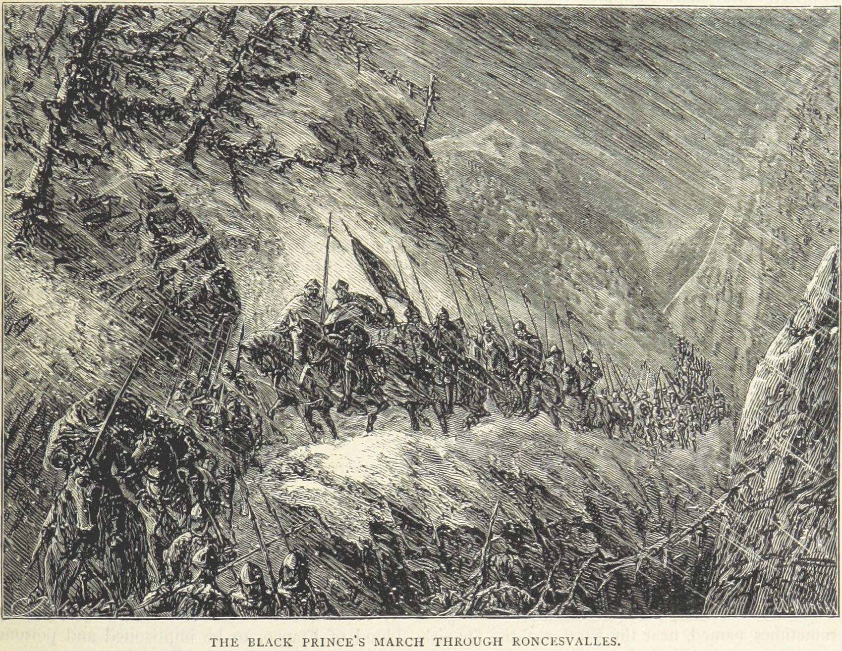 Edward the Black Prince travels through Roncesvalles during his Spanish campaign.